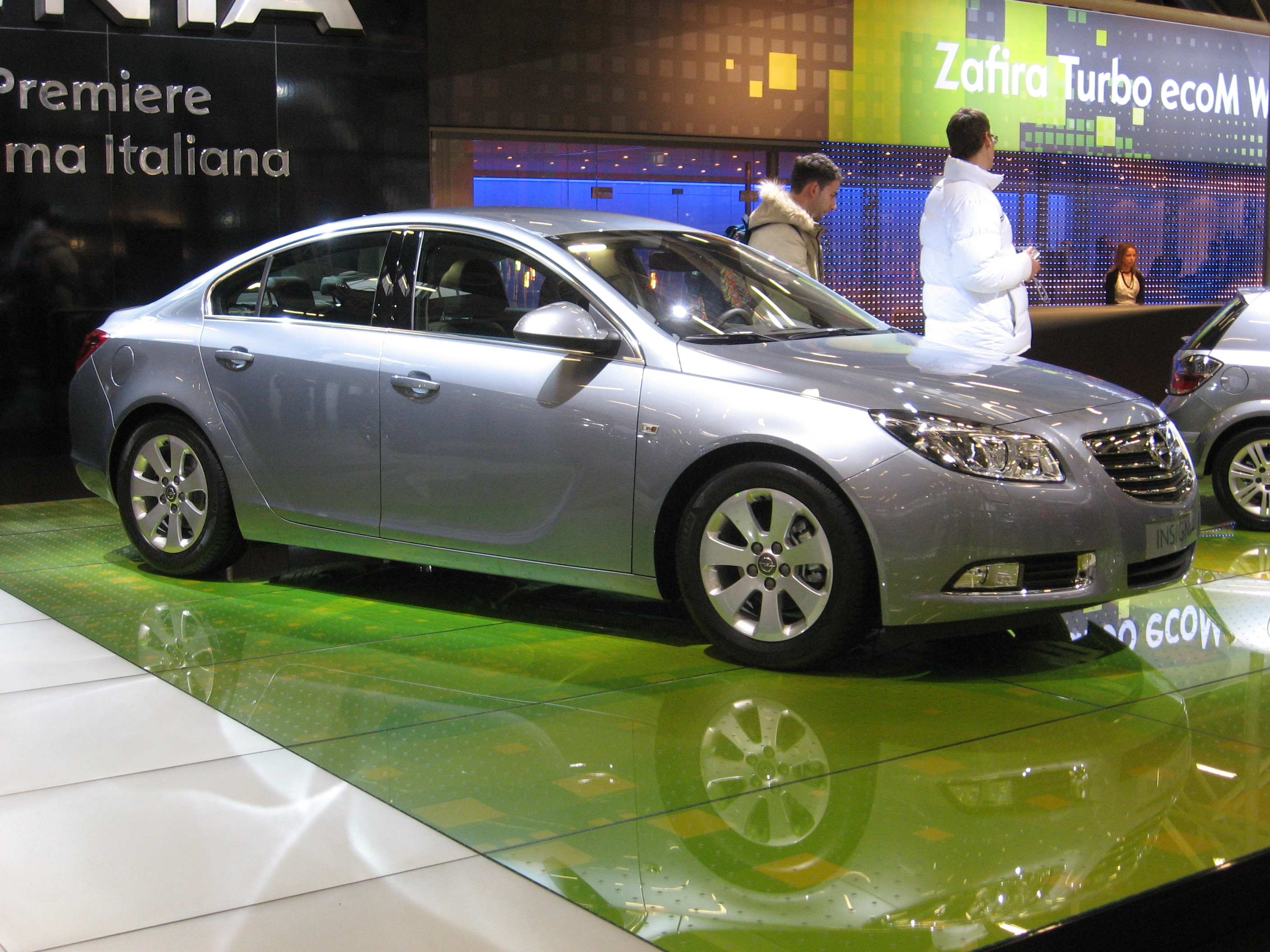 Subject: Opel Insignia Date:December 14th, 2008 Event: Bologna Motorshow 2008 Place/Country: Bologna, Italy I release all rights in the public domain.